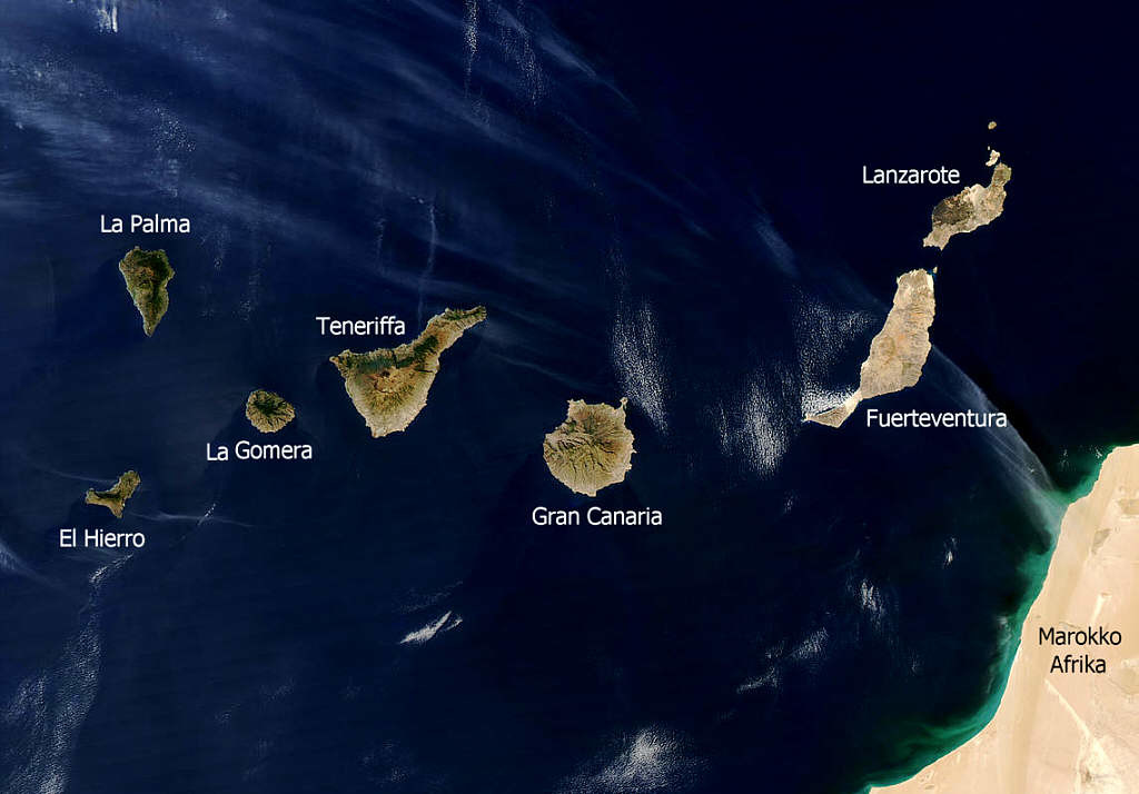 Canary Islands 2002